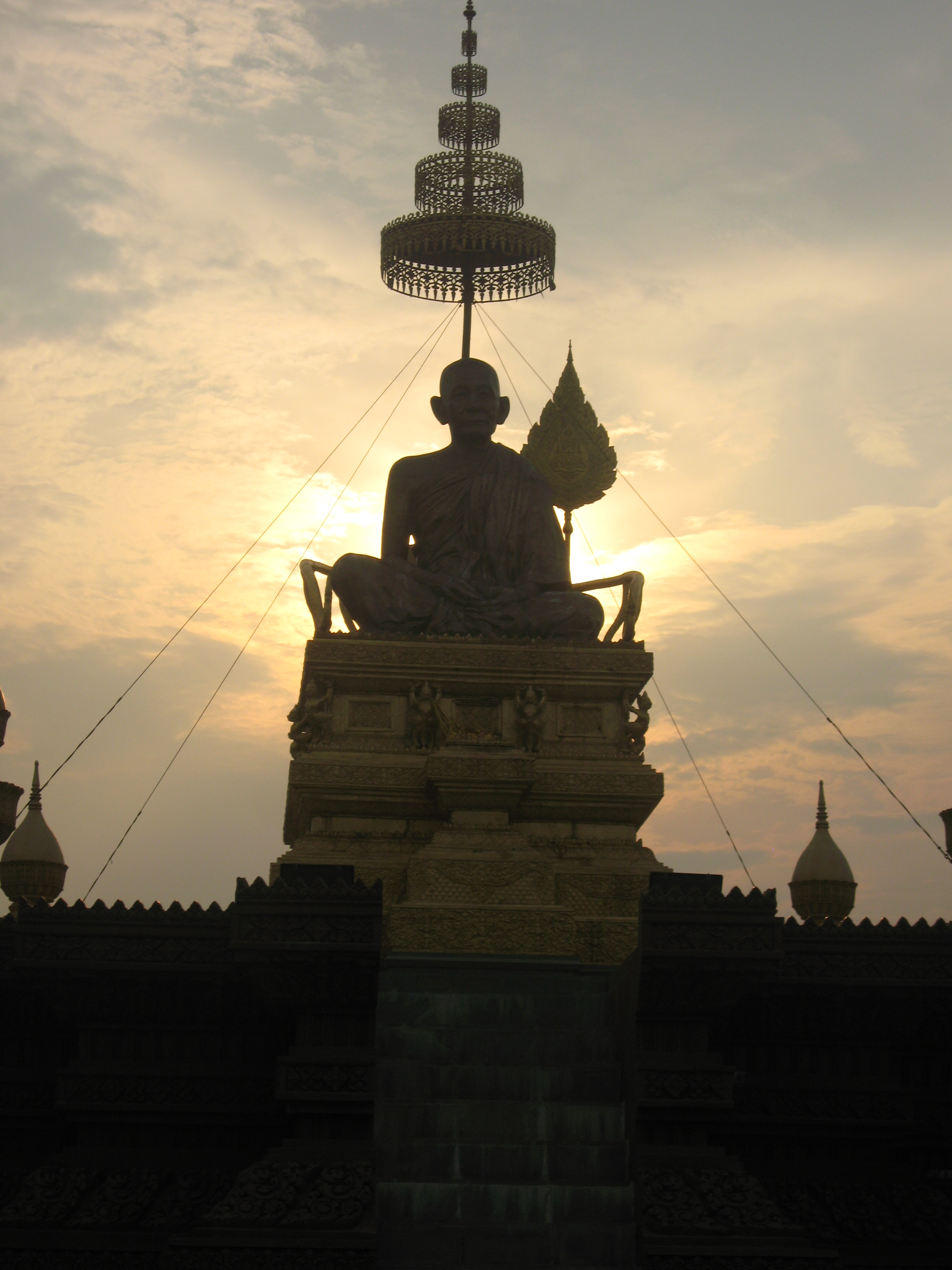 Choun Nath Status in Phnom Penh